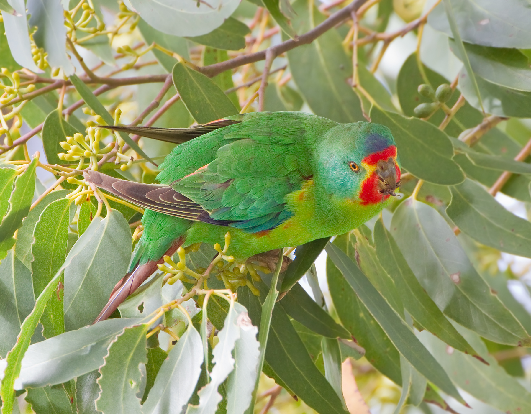 Swift Parrot (Lathamus discolor), Bruny Island, Tasmania, Australia